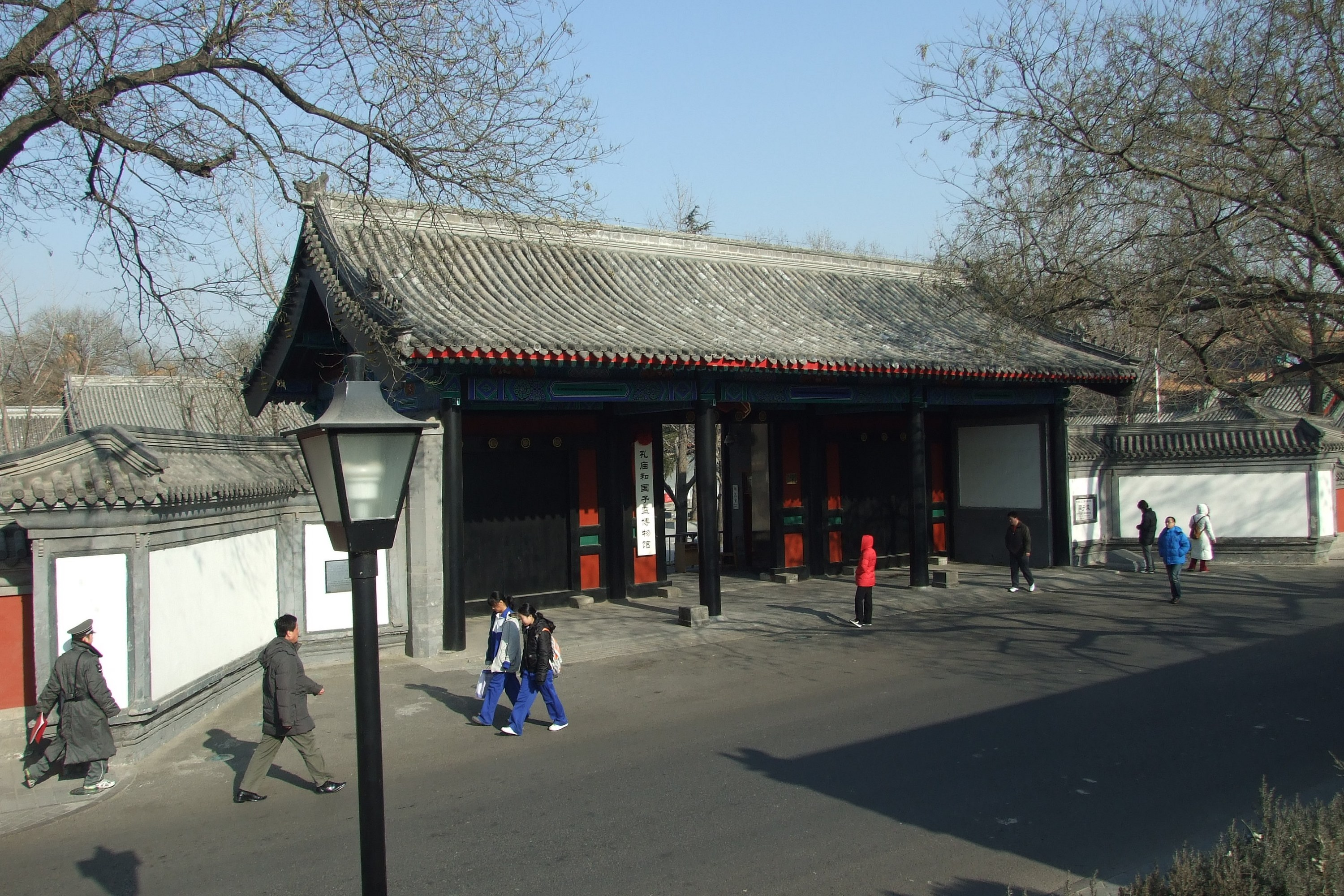 The Beijing Guozijian 中文（中国大陆）: 北京国子监入口